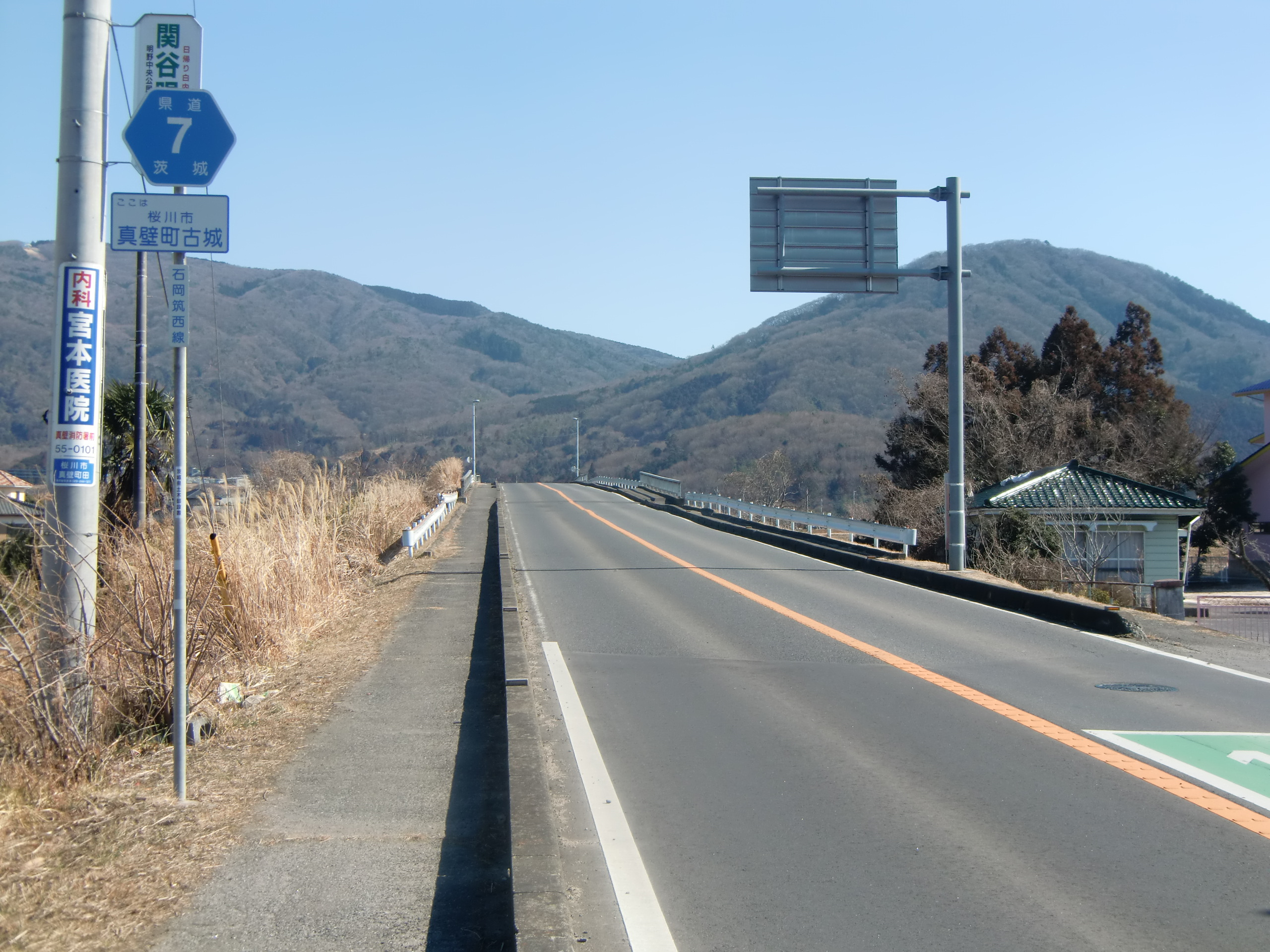 The Ibaraki Prefectural Road Route 7 in Makabecho Furushiro, Sakuragawa City